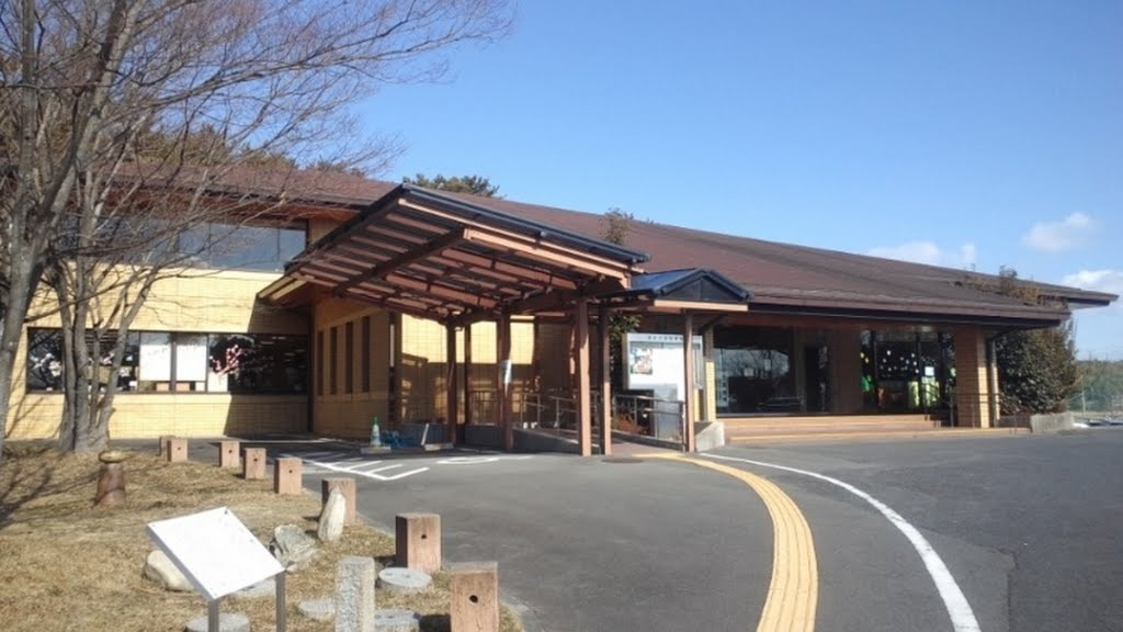 This is Tsu city Kawage Library, which is located in Kawagecho-Hamada, Tsu, Mie, Japan.